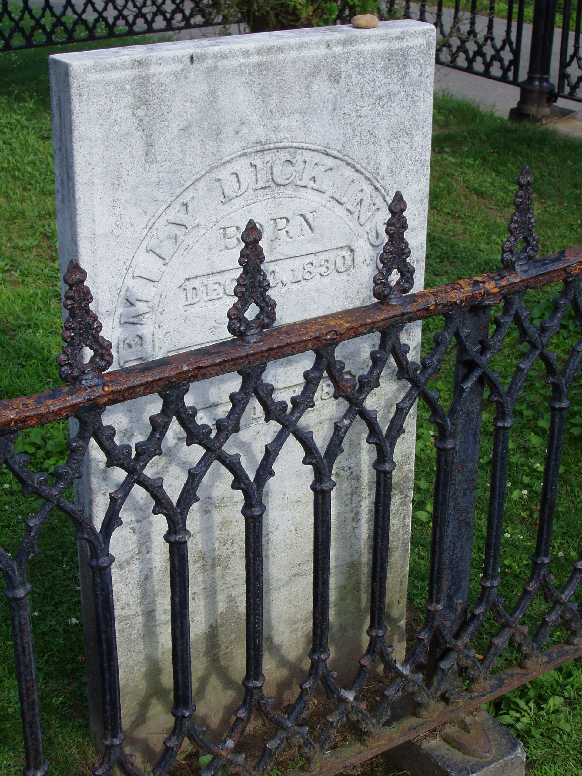 Grave of Emily Dickinson, American poet, in Amherst, Massachusetts. Photograph taken by me, 2004.